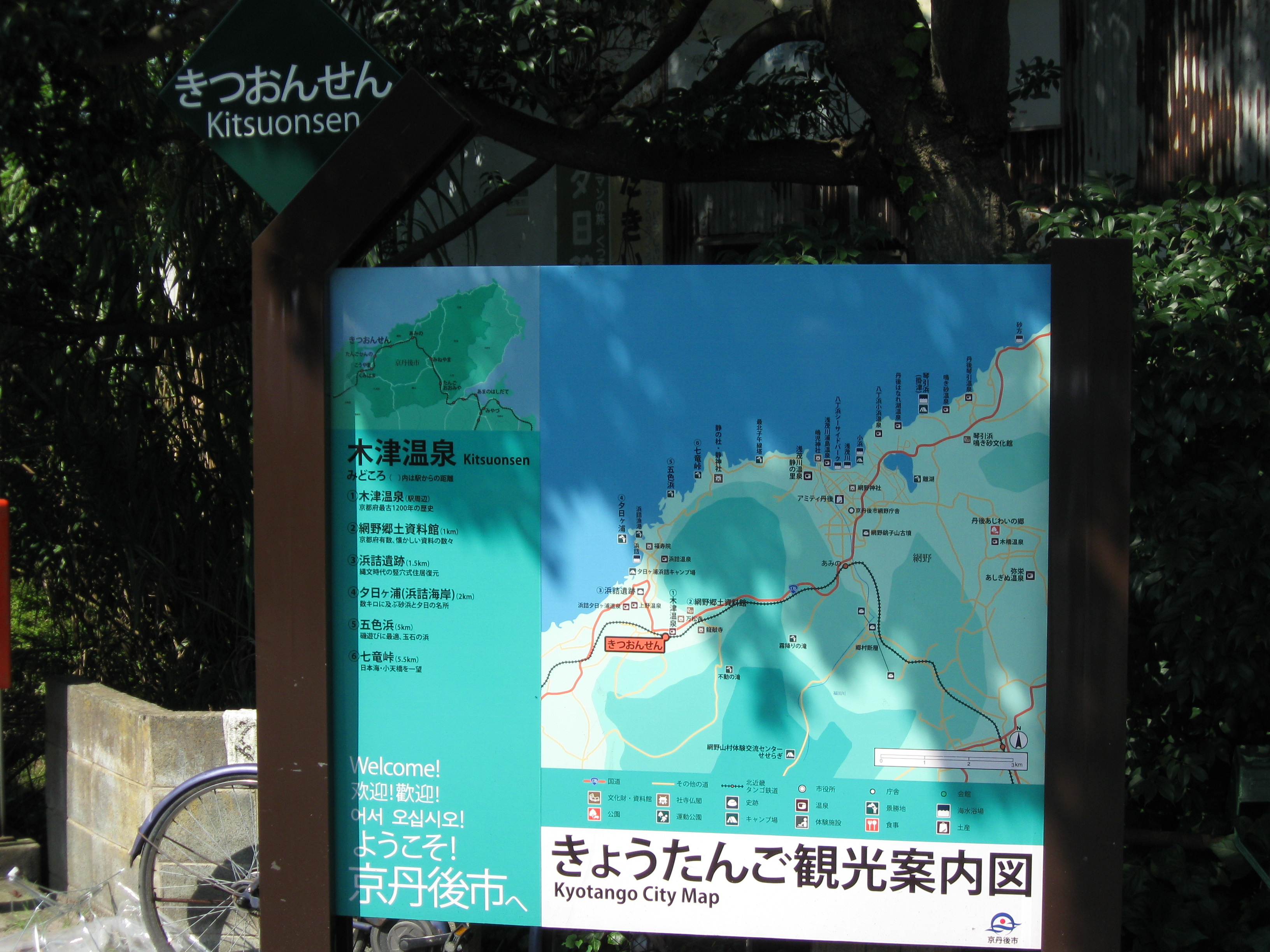 Kitsuonsen Station, Kitanki Tango, Kyoto-ken